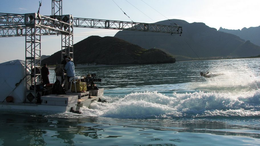 Crew members filming You Don't Mess with the Zohan (2008)